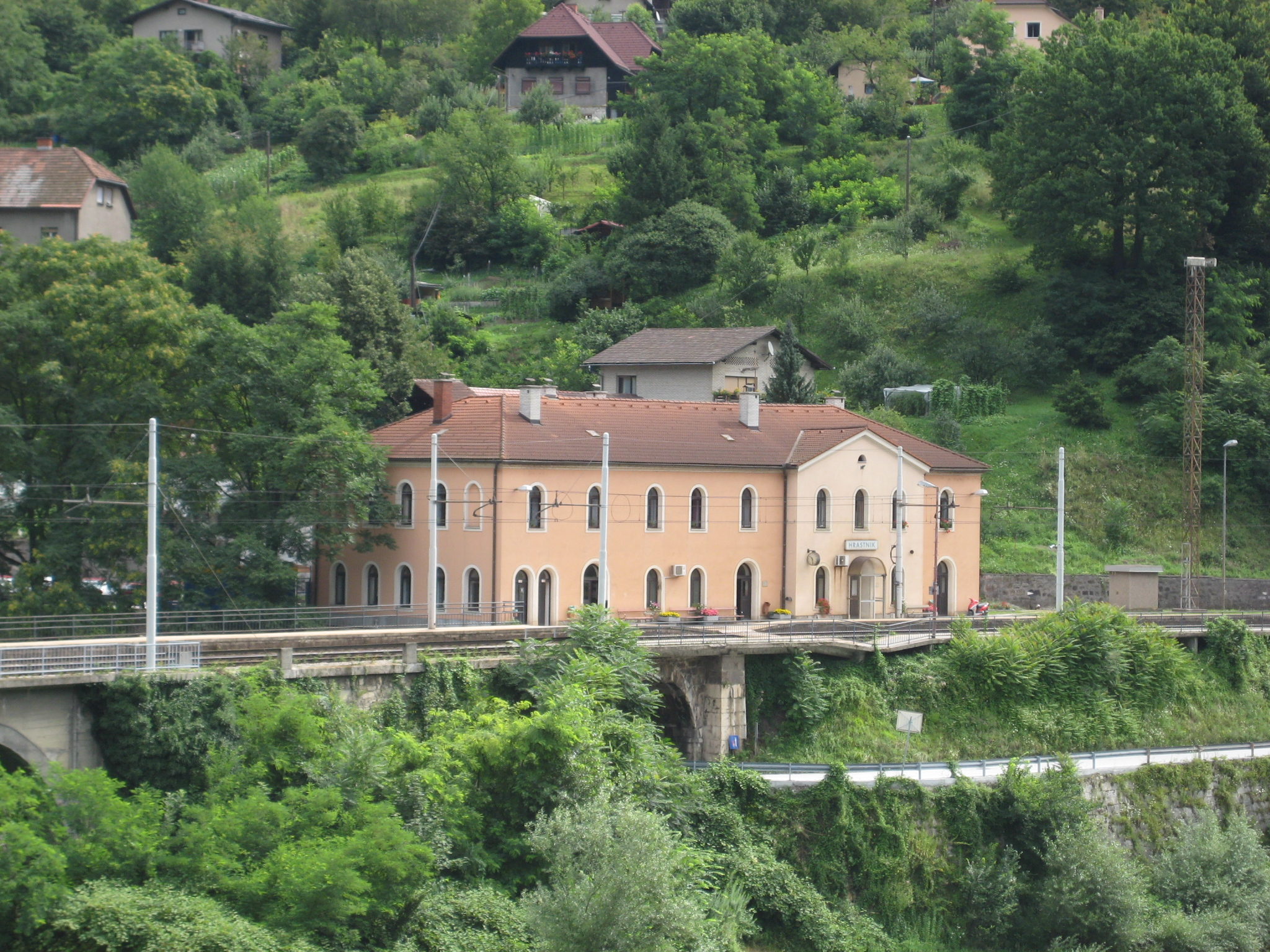 Hrastnik train station, Slovenia